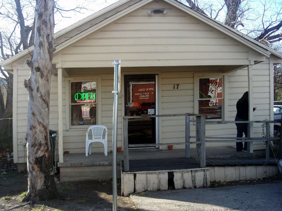 Grand Opening of Under the Hood Cafe, Photo by James M. Branum